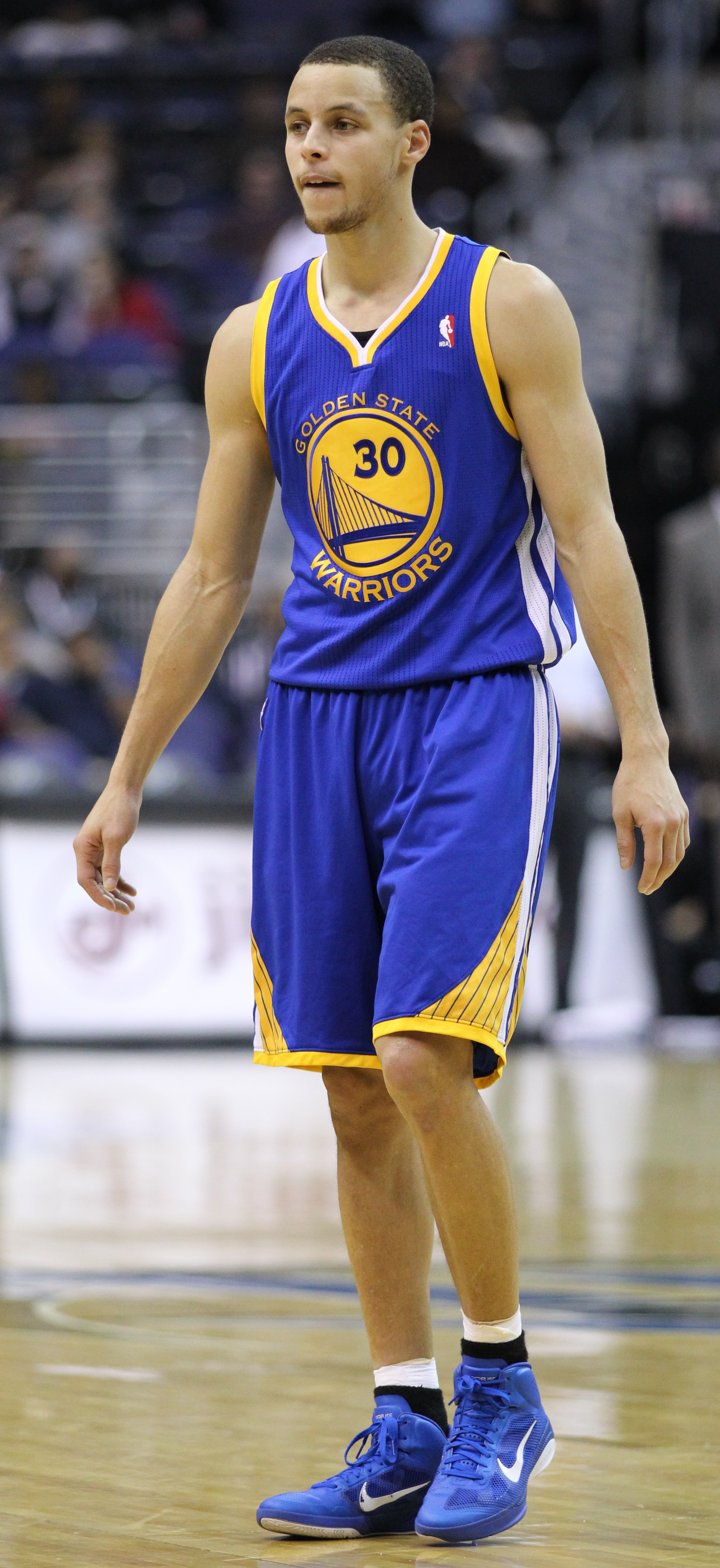 Wizards v/s Warriors 03/02/11